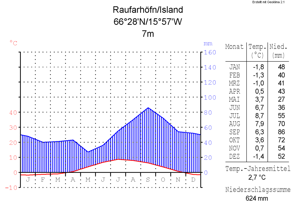 climate chart in the format by Walter and Lieth, metric, °Celsisus and millimeters, made with Geoklima 2.1